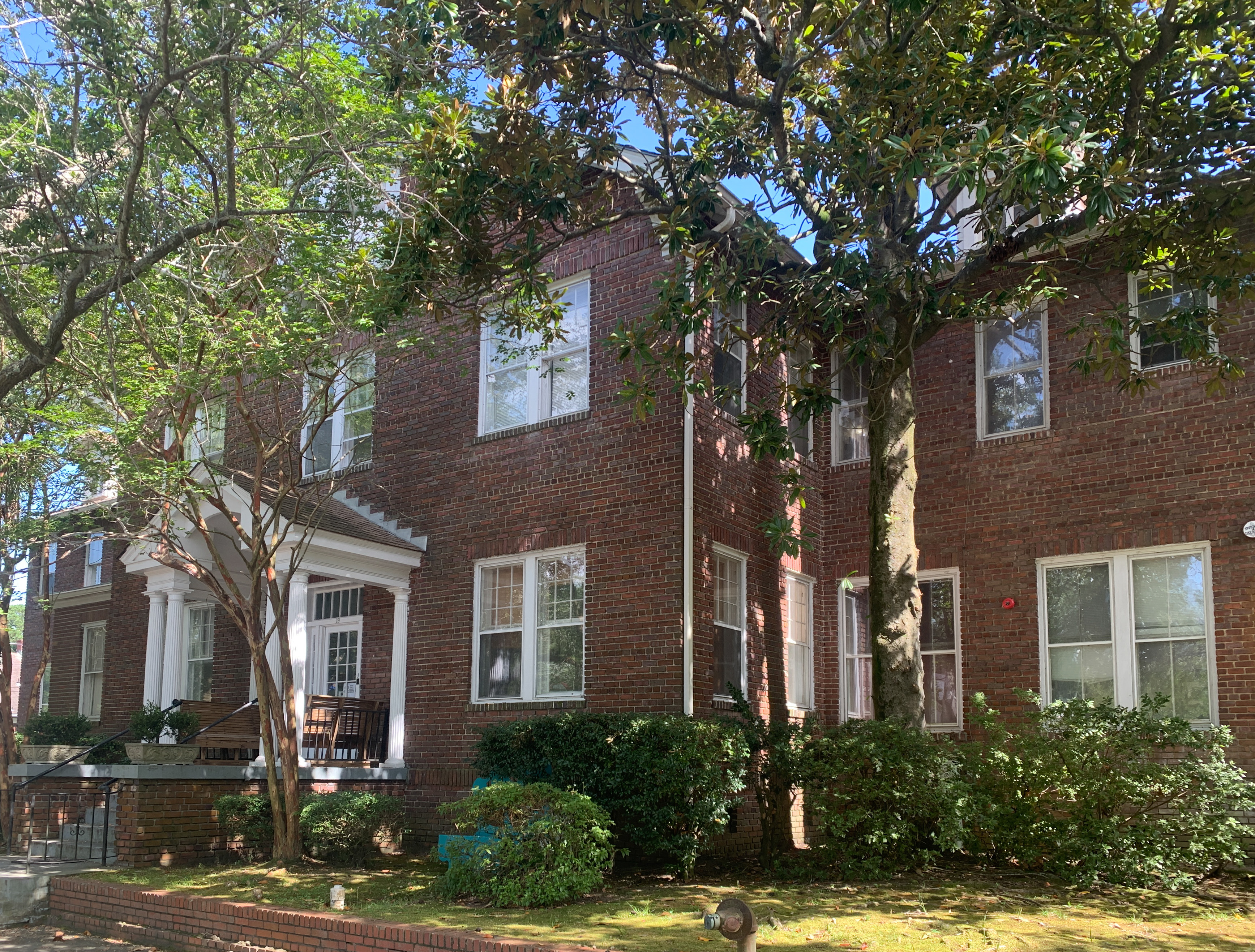 19 St. Margaret Street, Charleston, South Carolina